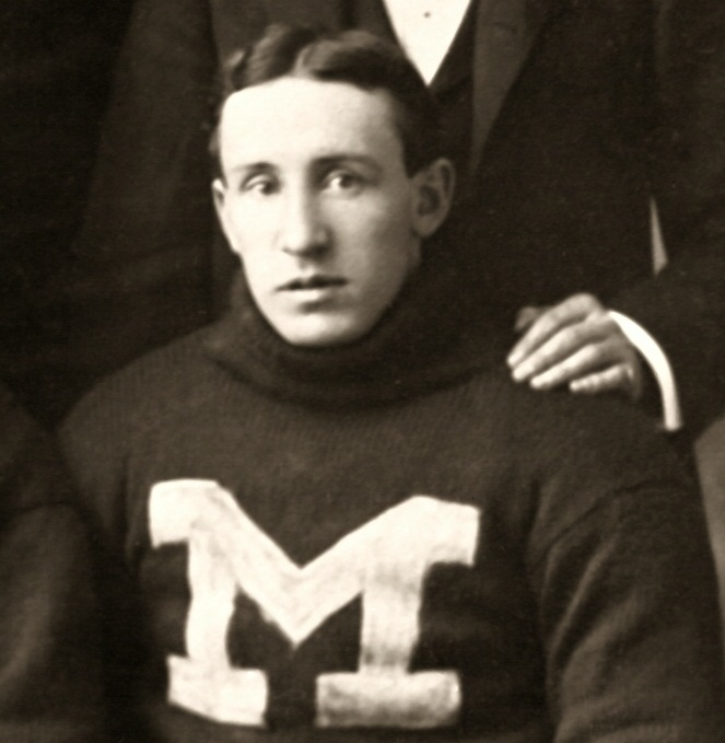 Henry M. Senter cropped from 1895 University of Michigan football team